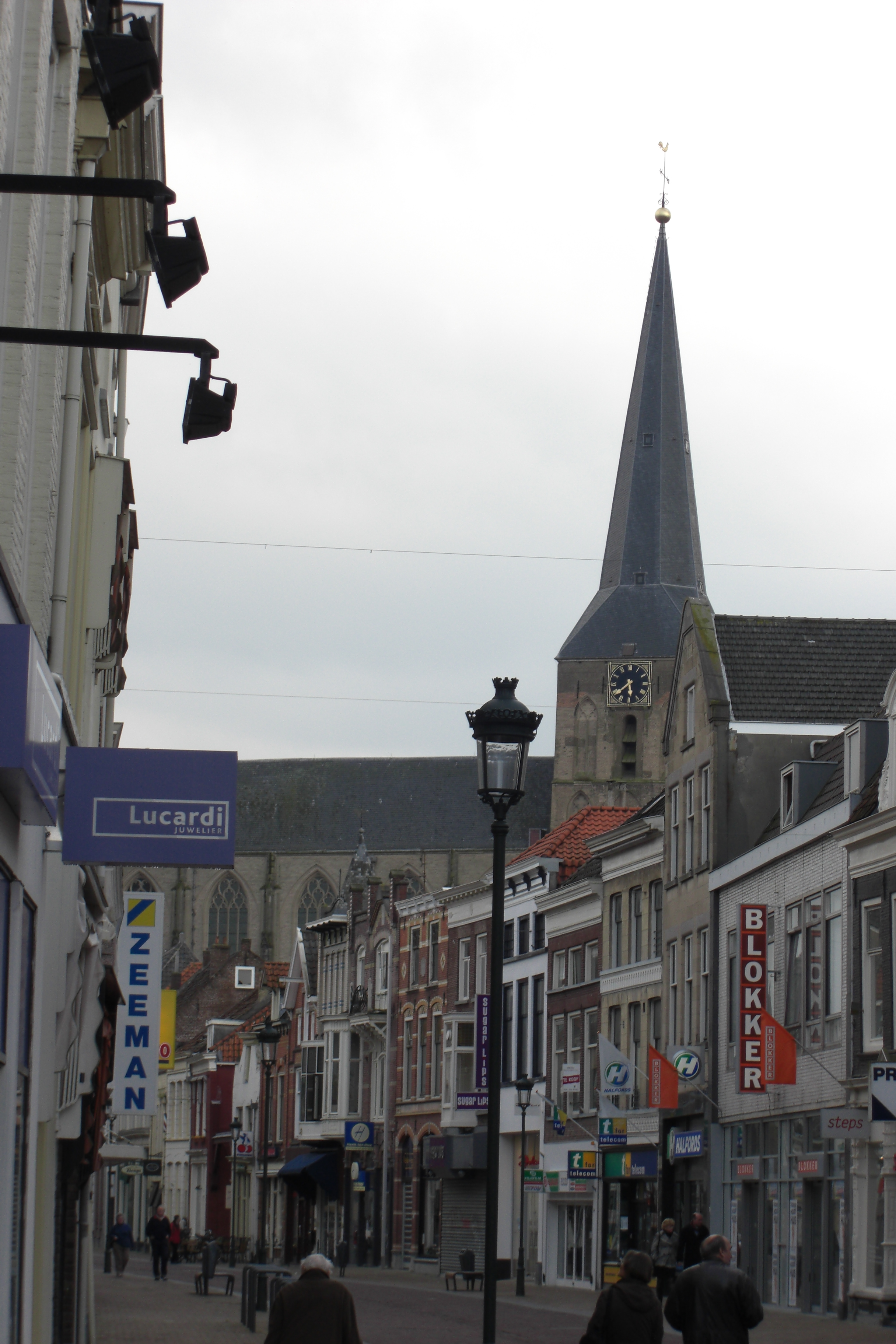 Oudestraat in Kampen, The Netherlands